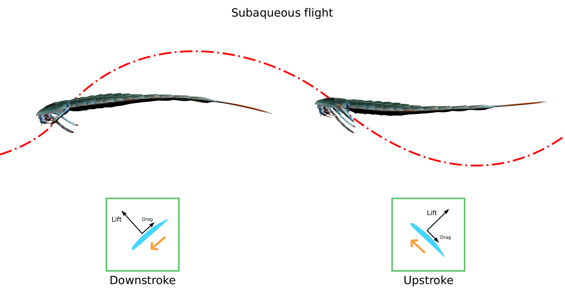 Illustration of subaqueous flight in Eurypterus in which the shape of the paddles and their motion through water is enough to generate lift (like airplane wings).